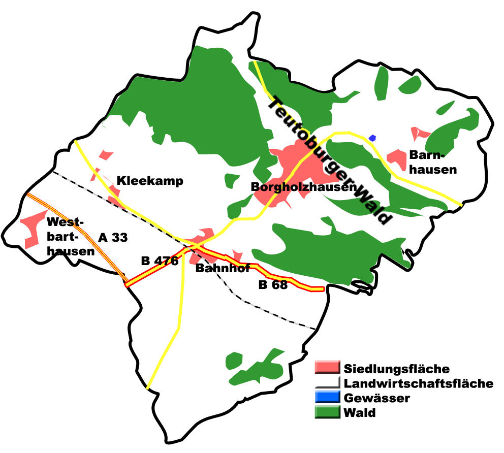 Land usage in Borgholzhausen, County of Gütersloh, Germany